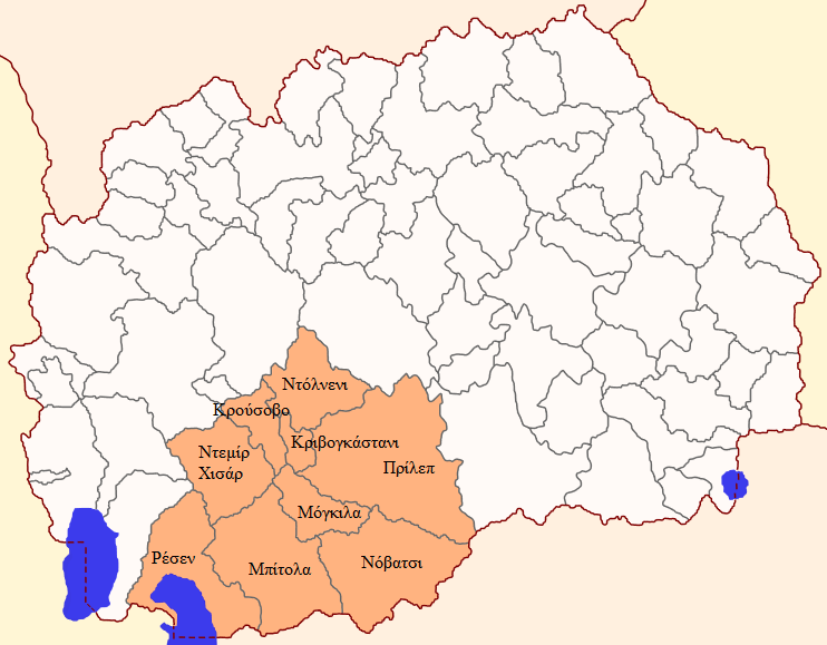 The municipalities of Pelagonia Statistical Region of North Macedonia in Greek language.